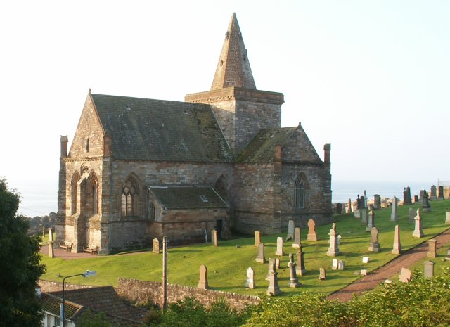 St Monans Auld Kirk. The Church from the NE looking across the Inverie burn from the village.